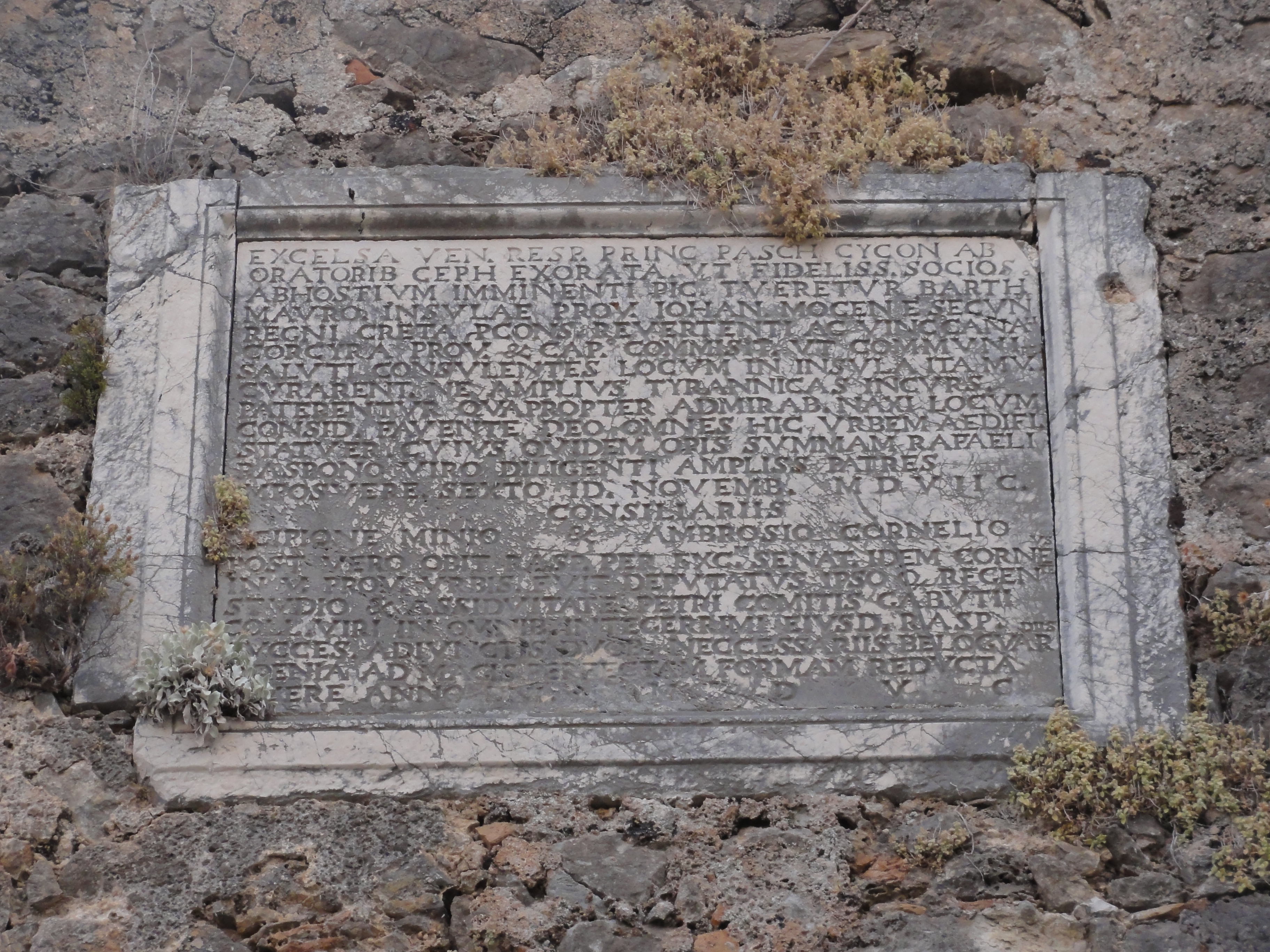 Photograph taken at the Assos Venetian Fort in Kefalonia.